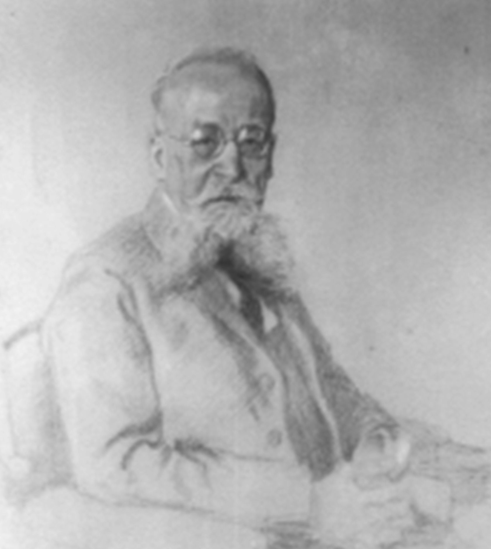 Portrait of Ernst Malachowski, discoverer of the polychromatic stain (also called the Romanowsky stain).